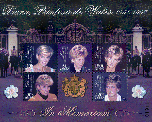 Stamp of Moldova